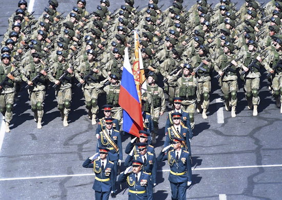 Ceremonial parade on the occasion of the 25th anniversary of Armenia's Independence took place on Republic Square in Yerevan, Armenia